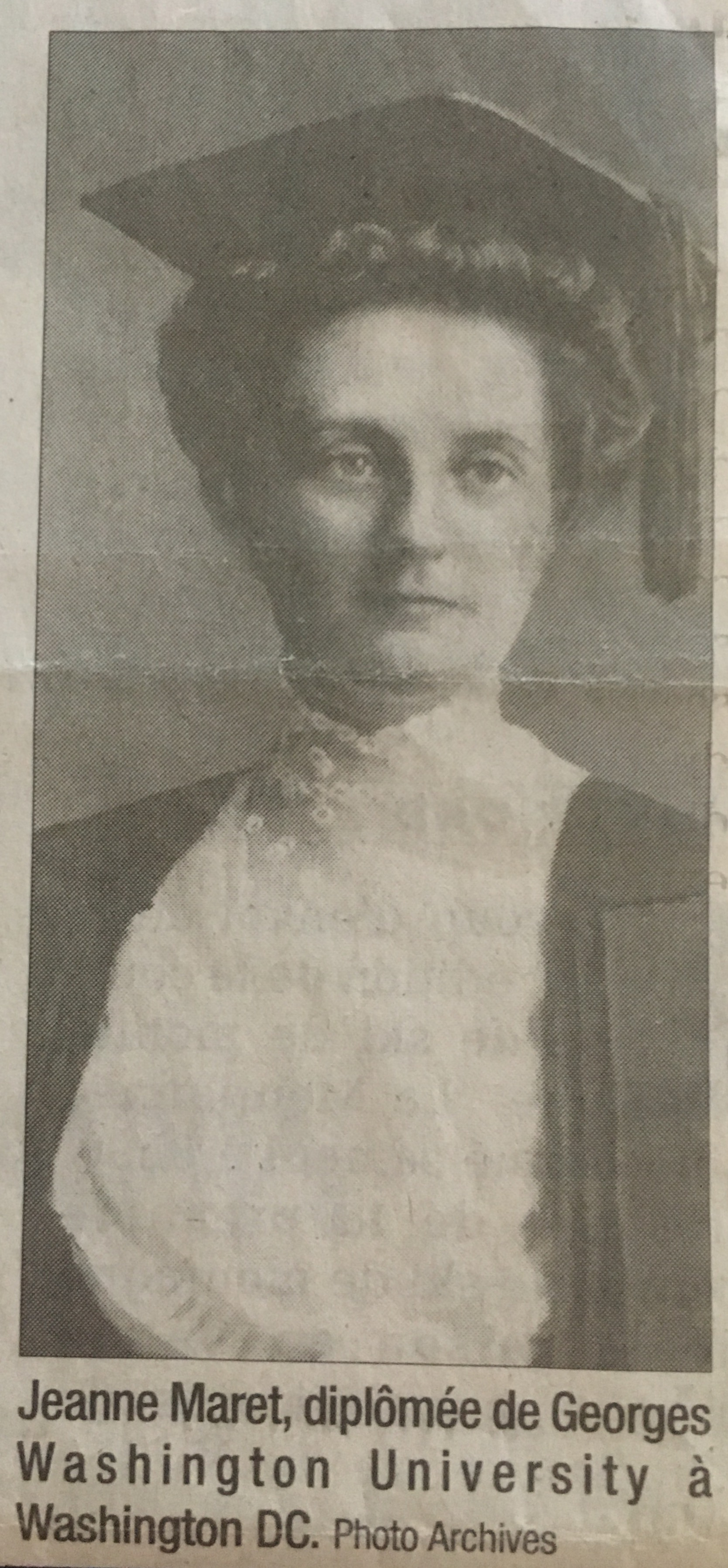 Graduation of Jeanne Maret from George Washington University